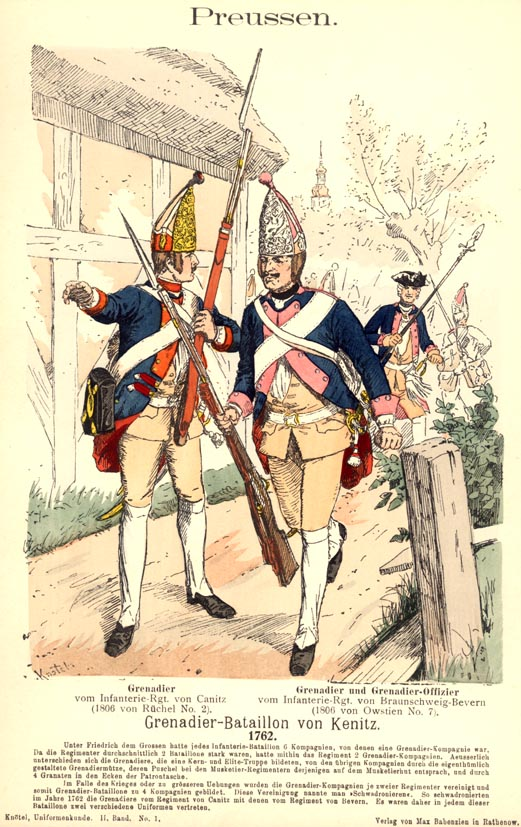 Preußen. Grenadier-Bataillon von Kenitz. 1762